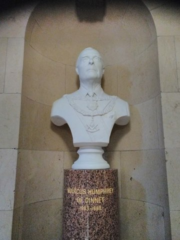 Bust of Marcus Humphrey, Freemason Hall, Edinburgh